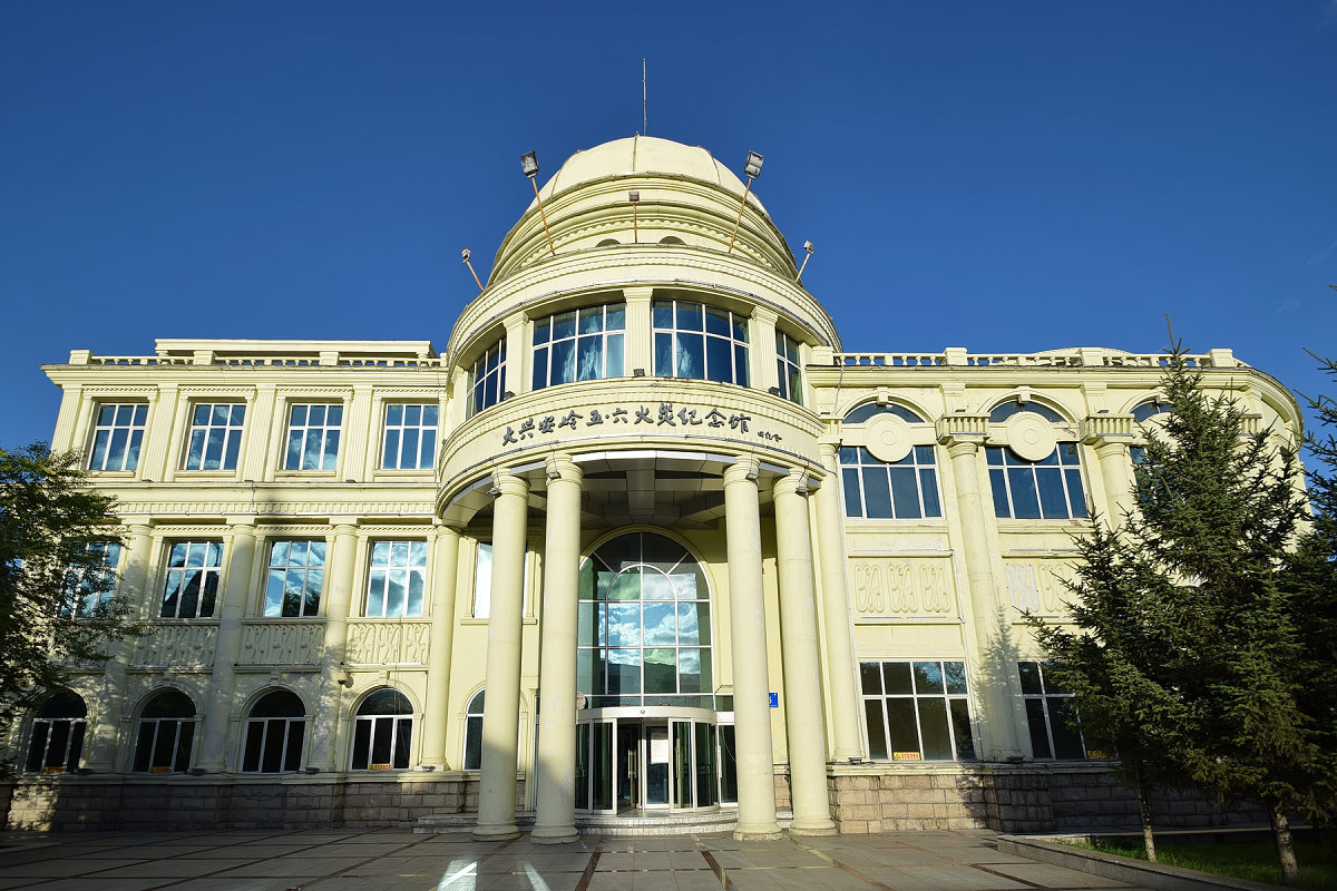 Daxing'anling May 6 Fire (1987 Black Dragon Fire) Memorial Museum, Mohe City